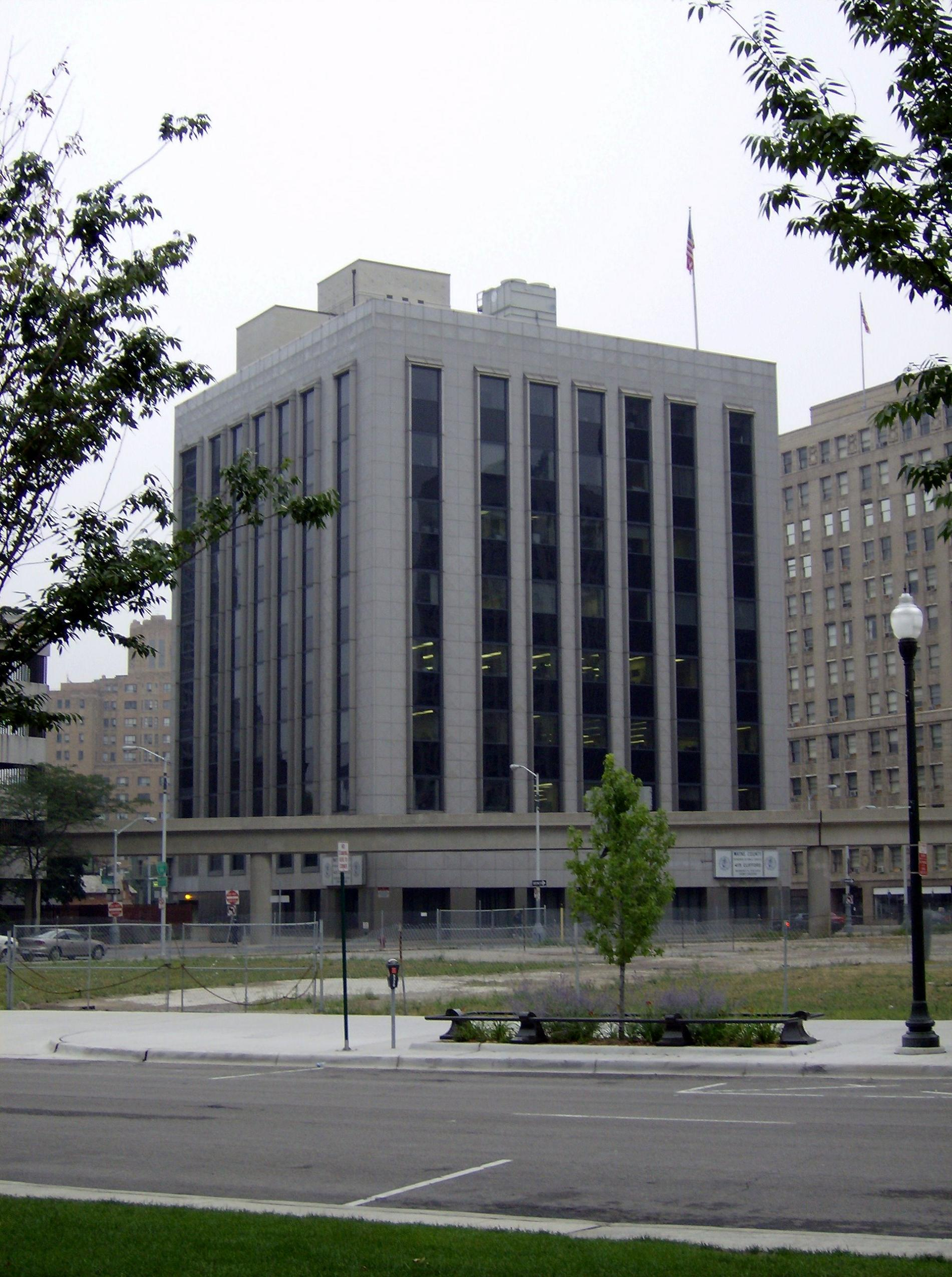 Washington Blvd., Detroit — where demolished Category:Detroit Statler Hotel|Detroit Statler Hotel formerly stood.